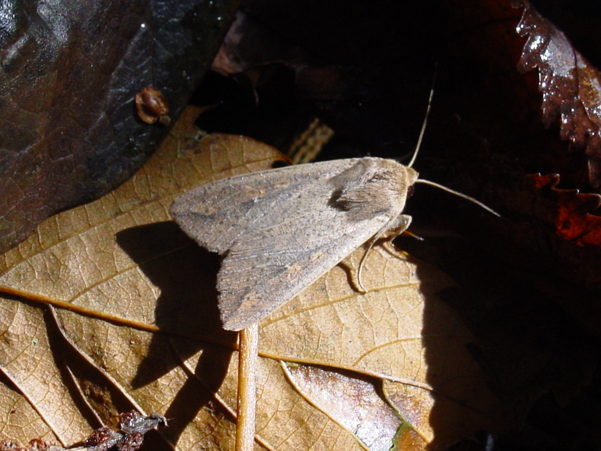 White-speck Bastabales - Galicia - Spain